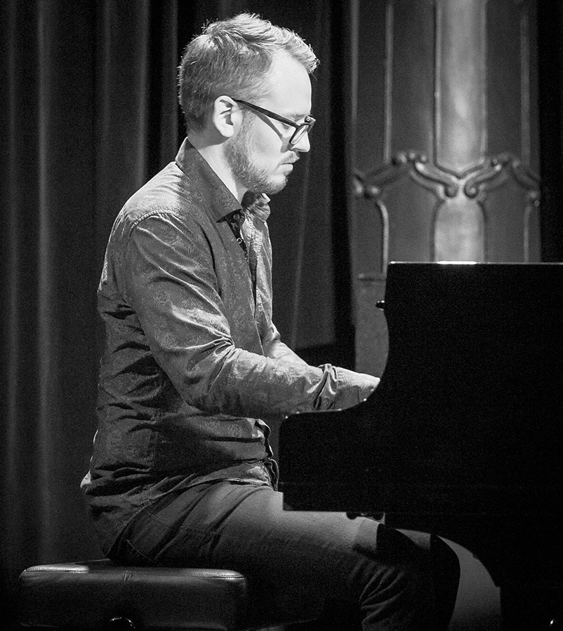 Espen Berg performs with Espen Berg Trio at the stage of Nasjonal Jazzscene Victoria. The concert took place on 07. September 2016 in Oslo. Lineup:Espen Berg (piano)Barður Reinert Poulsen (double bass)Simon Olderskog Albertsen (drums)